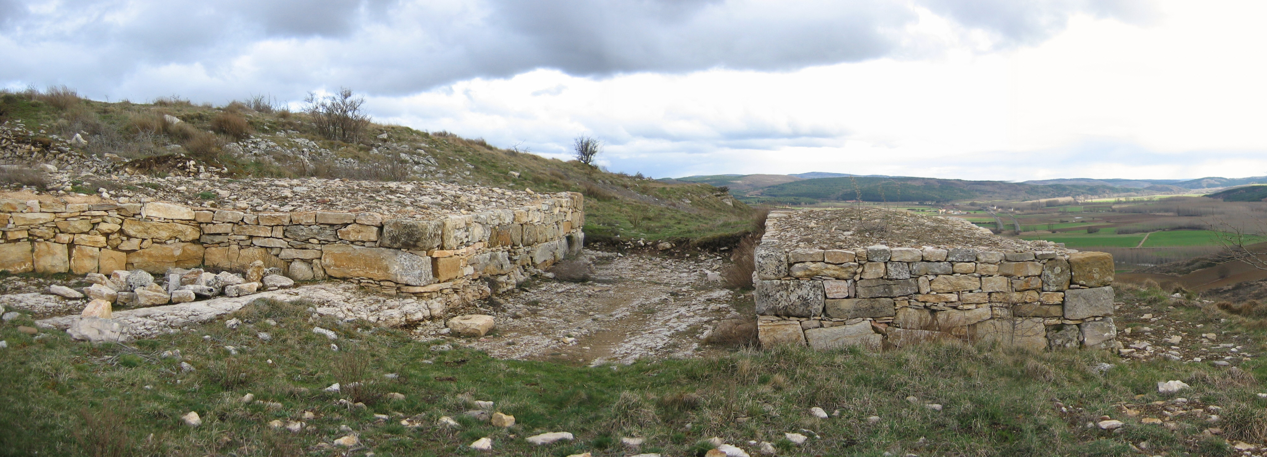 Main gate in the walls of Monte Cildá hill fort in Olleros de Pisuerga (Palencia, Castile and León).